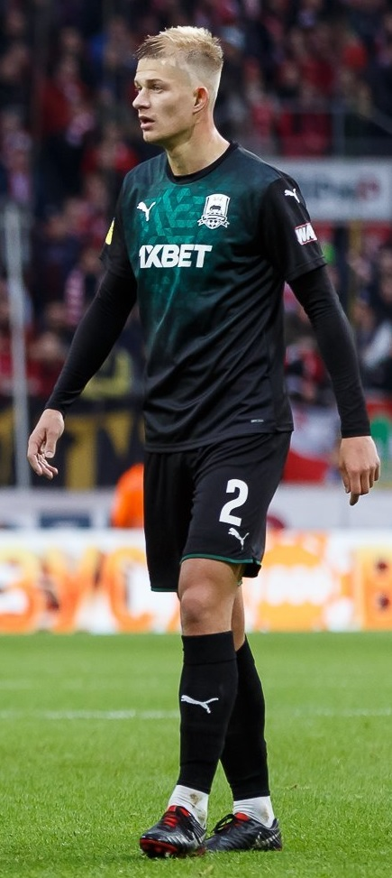 Yegor Sorokin with FC Krasnodar in a game against FC Spartak Moscow.